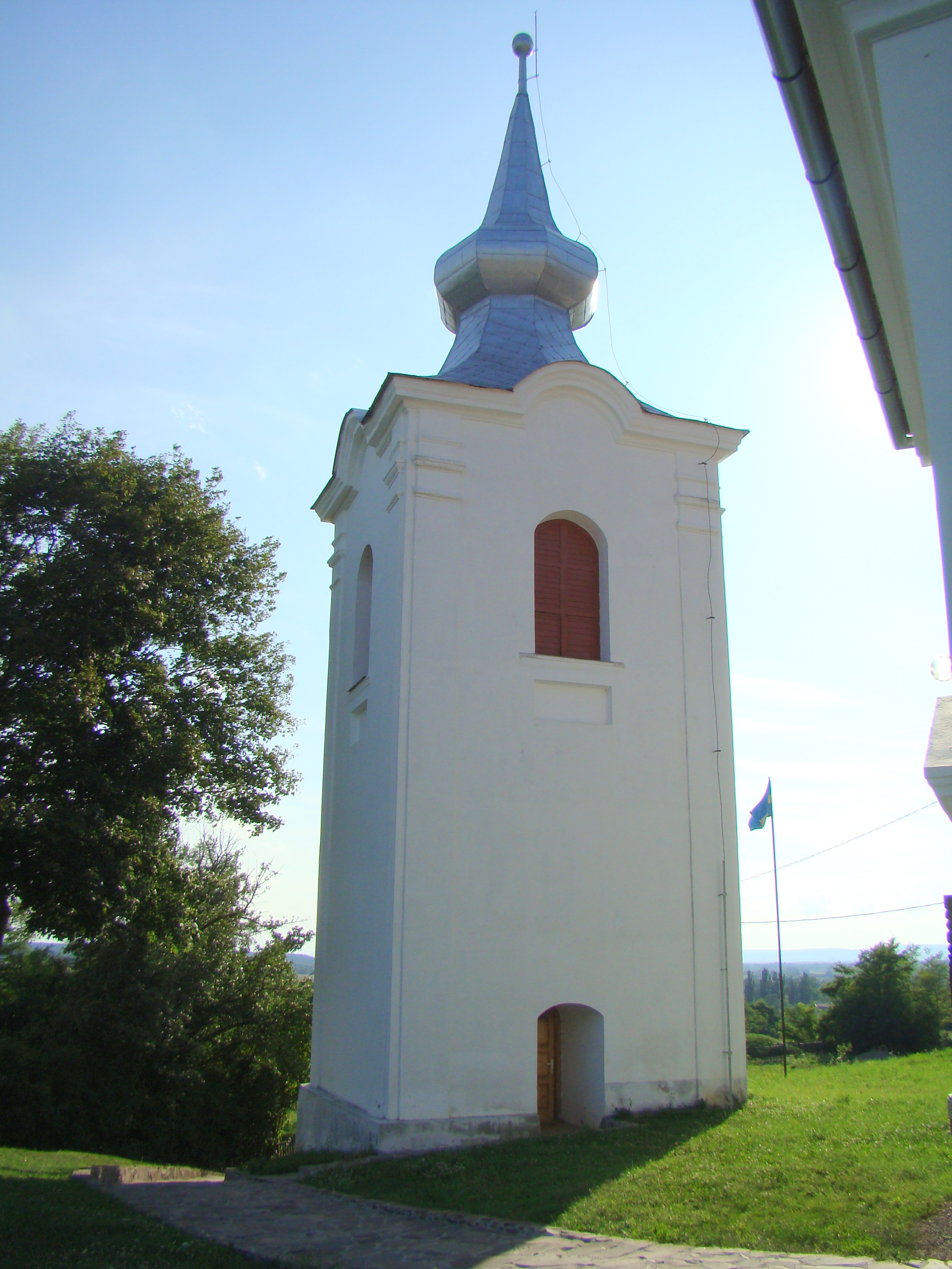 Reformed church in Reci, Covasna County, Romania